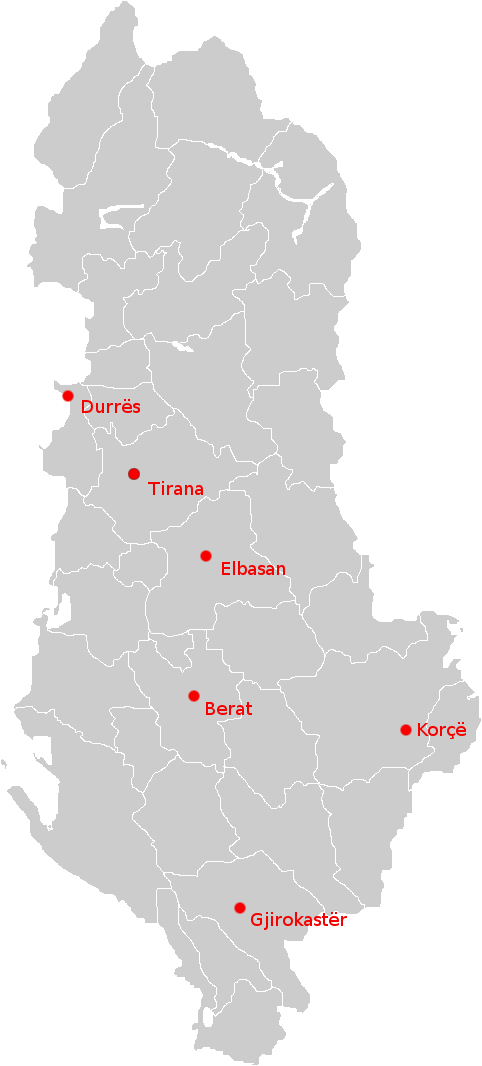 Based on Image:BlankMap-Albania2.92.png, showing the seats of the four Orthodox Bishops in Albania